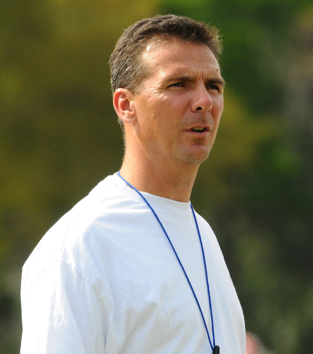 University of Florida football Head Coach Urban Meyer watches his team practice during the Gators' first Spring Practice of 2008 on March 19, 2008 at the UF Football Practice Fields in Gainesville, FL. (Photo by Harrison Diamond / The Independent Florida Alligator)